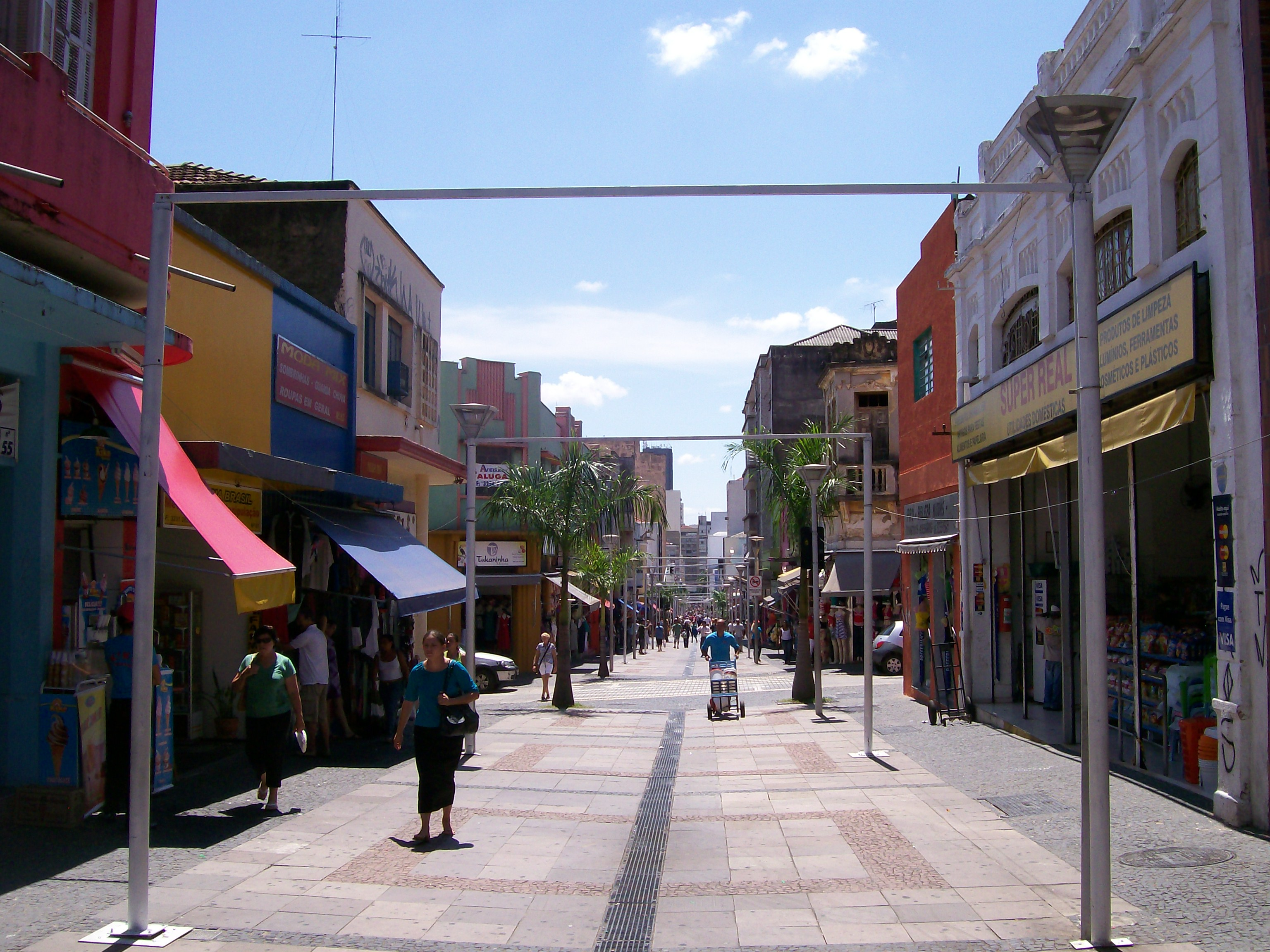 13 de Maio Street, downtown, Campinas, Brazil